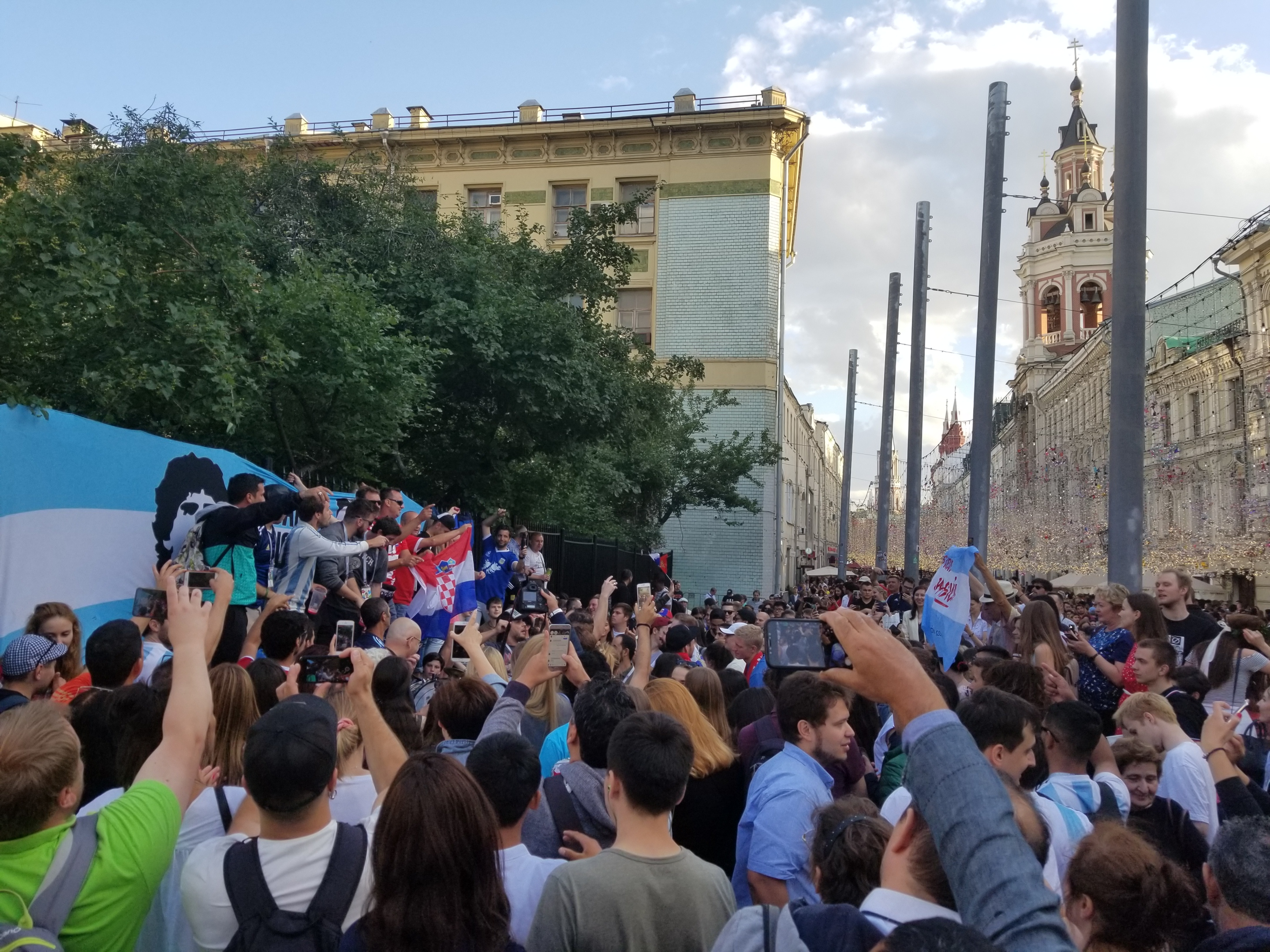 Football fans at Nikolskaya street in Moscow